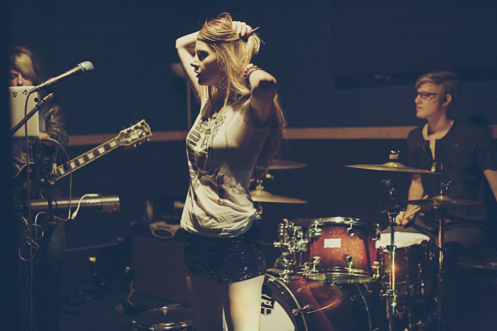 Photo of the band of Verona